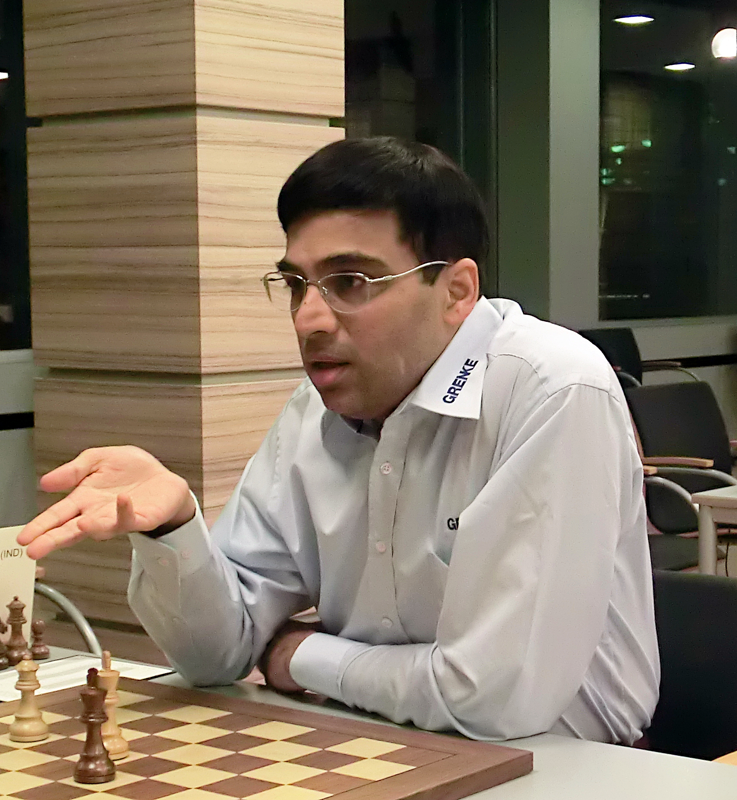 Viswanathan Anand, chess grandmaster from India